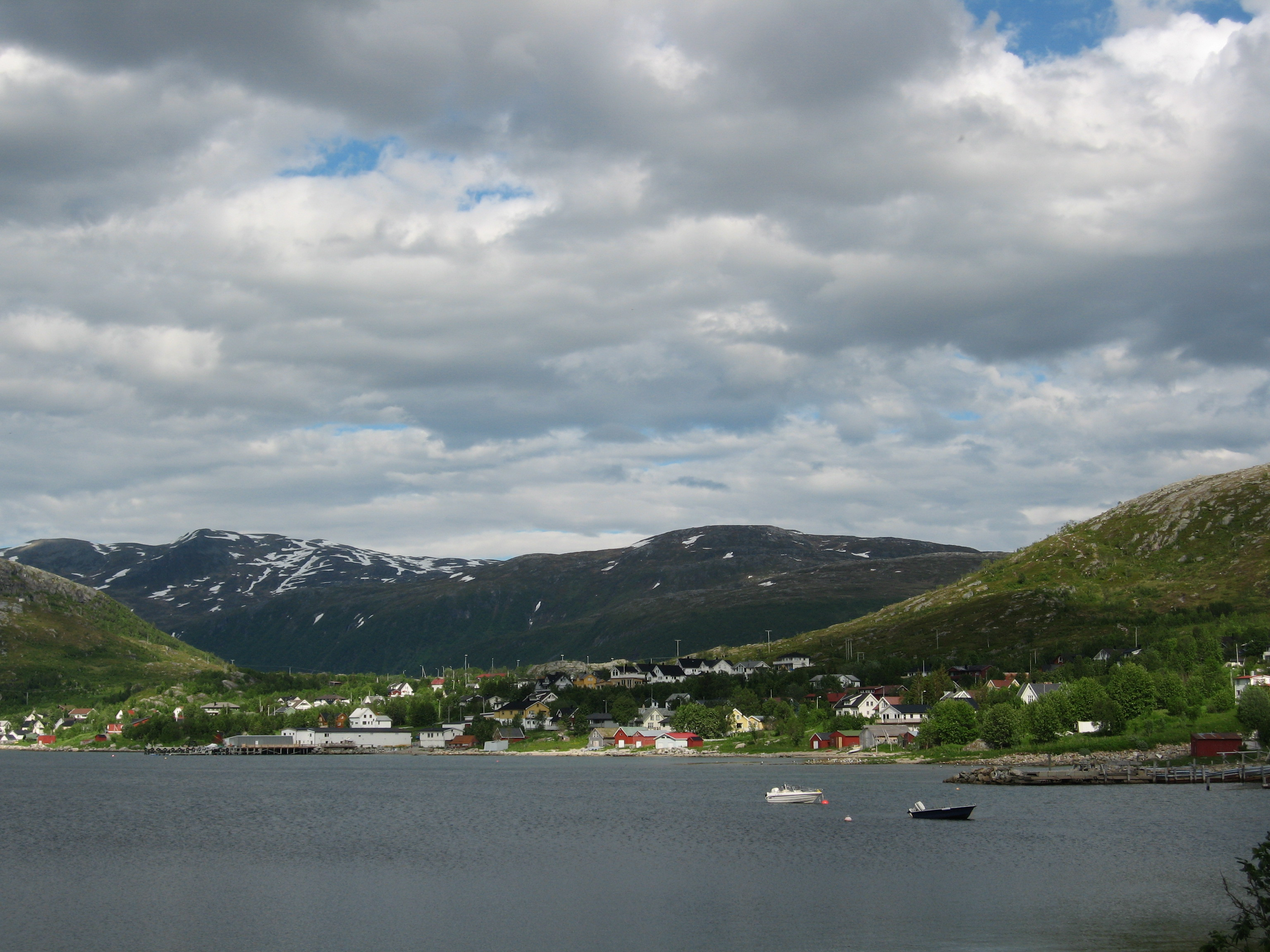 Ersfjordbotn, Tromsø, Norway, 2012